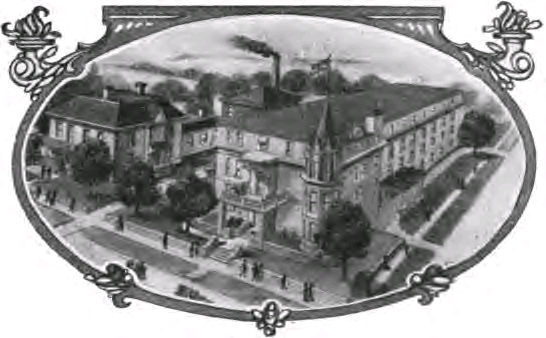 Weltmer Institute : picture taken from the book "The Healing Hand" by S.A. Weltmer 1922